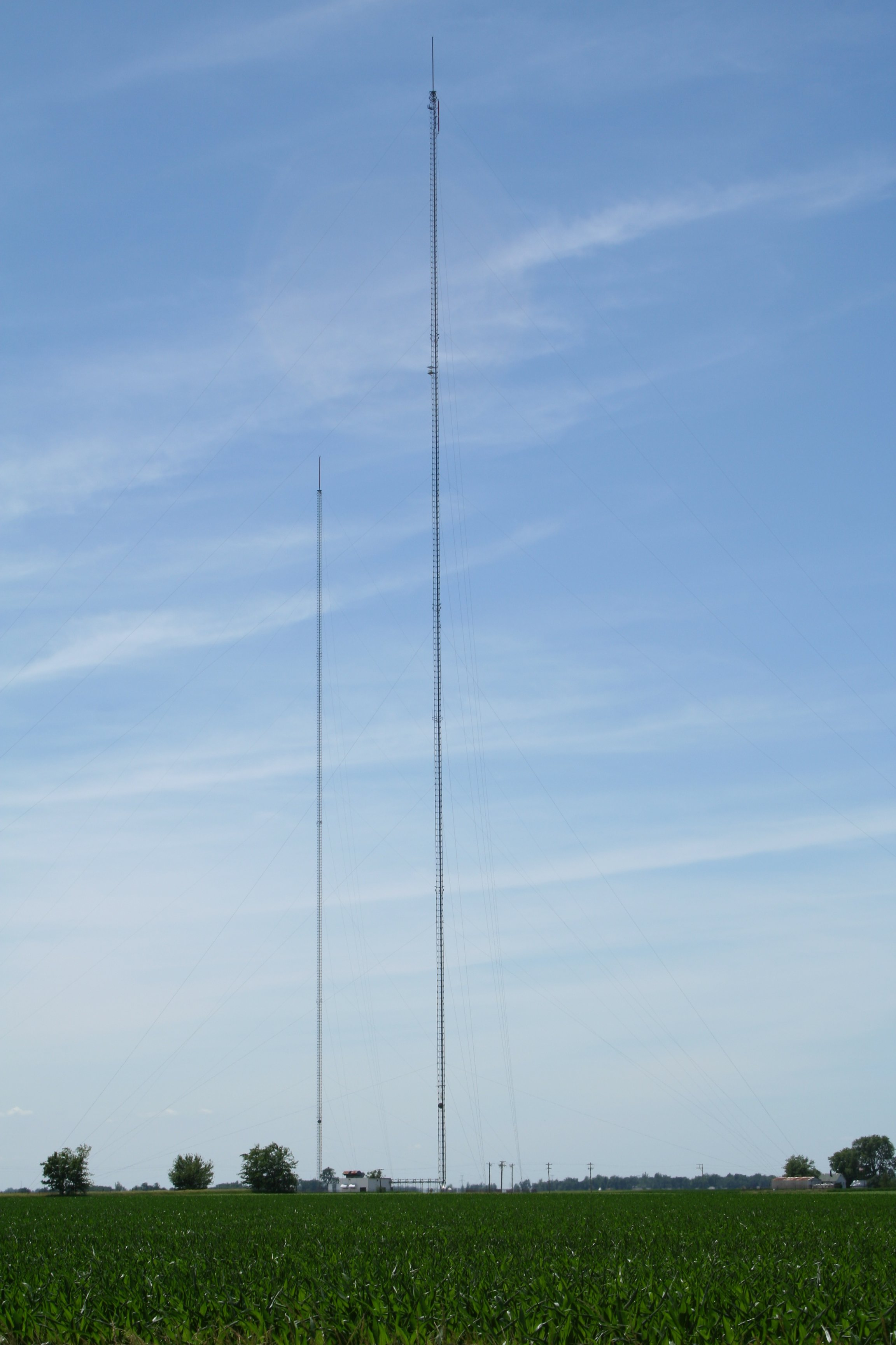 WAND TV (right) and WBUI TV (left) tower antennas near Argenta, Illinois